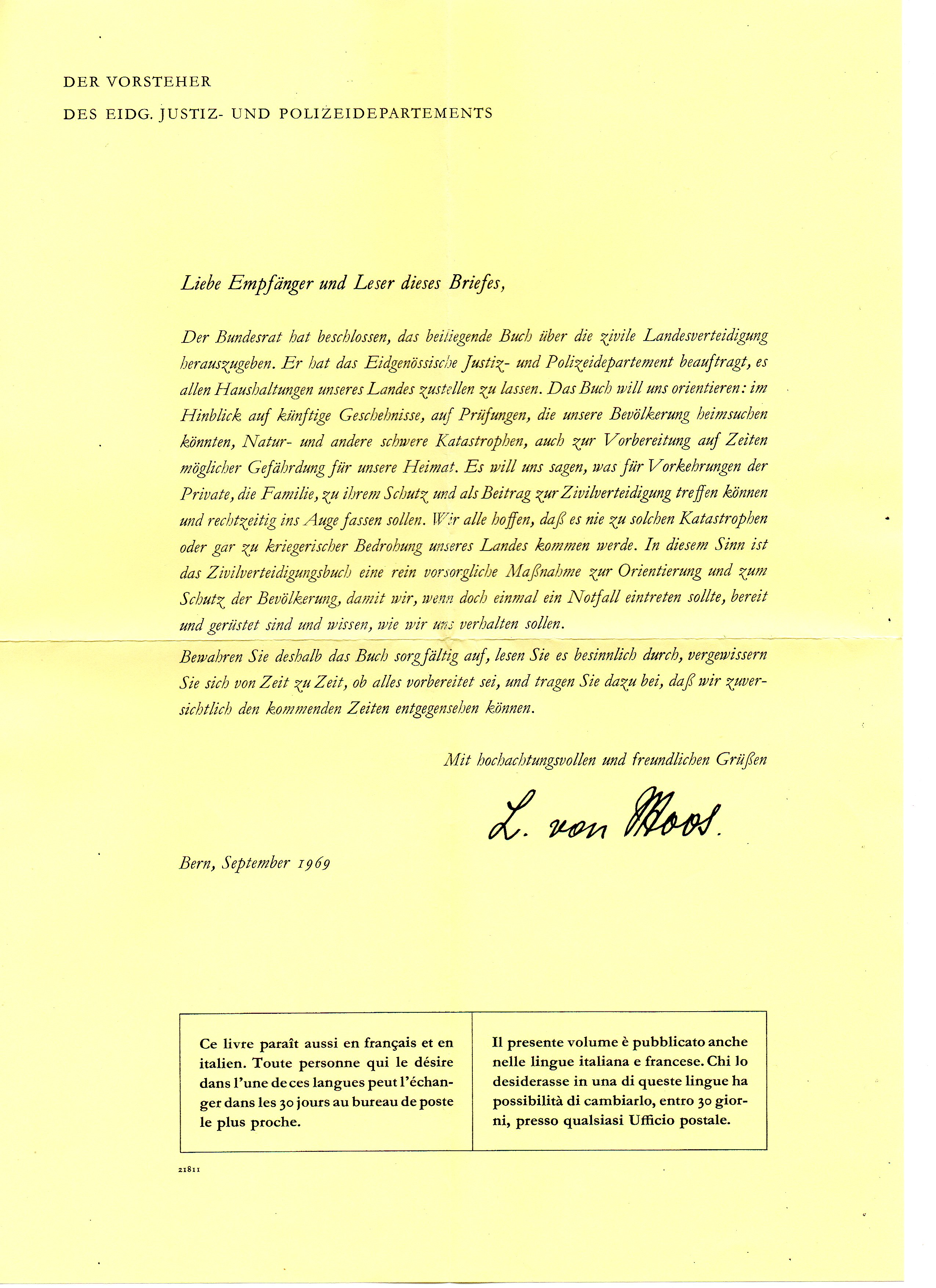 civil defense book, Switzerland 1969